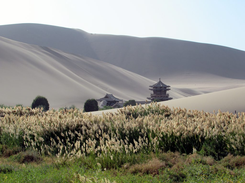 The Mingsha Sand Dunes almost engulf the Mingyue Pavilion at Crescent Lake just south of Dunhuang, Gansu, China.